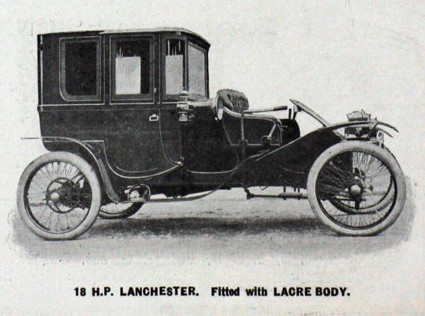 1905 Lanchester 18 HP Coupe de Ville with Lacre coachwork. Lacre Motor Co. used this picture in a 1905 advertisement.